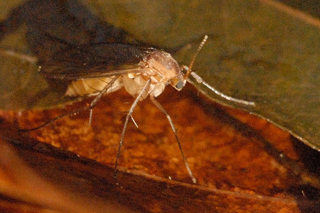 Picture taken in Commanster, Belgian High Ardennes Species: Mycetophila fungorum